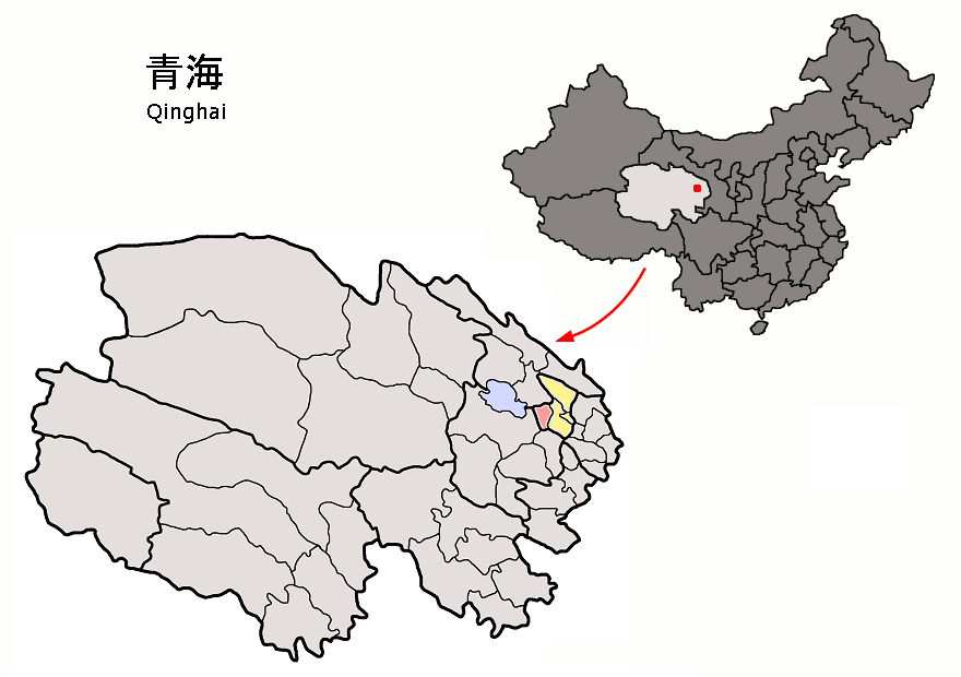 Location of Huangyuan County (pink) and Xining Prefecture (yellow) within Qinghai province of China Map drawn in september 2007 using various sources, mainly : Qinghai province administrative regions GIS data: 1:1M, County level, 1990 Qinghai Counties map from "Plateau Perspectives" (the limits of some county-level subdivisions may not be accurate)